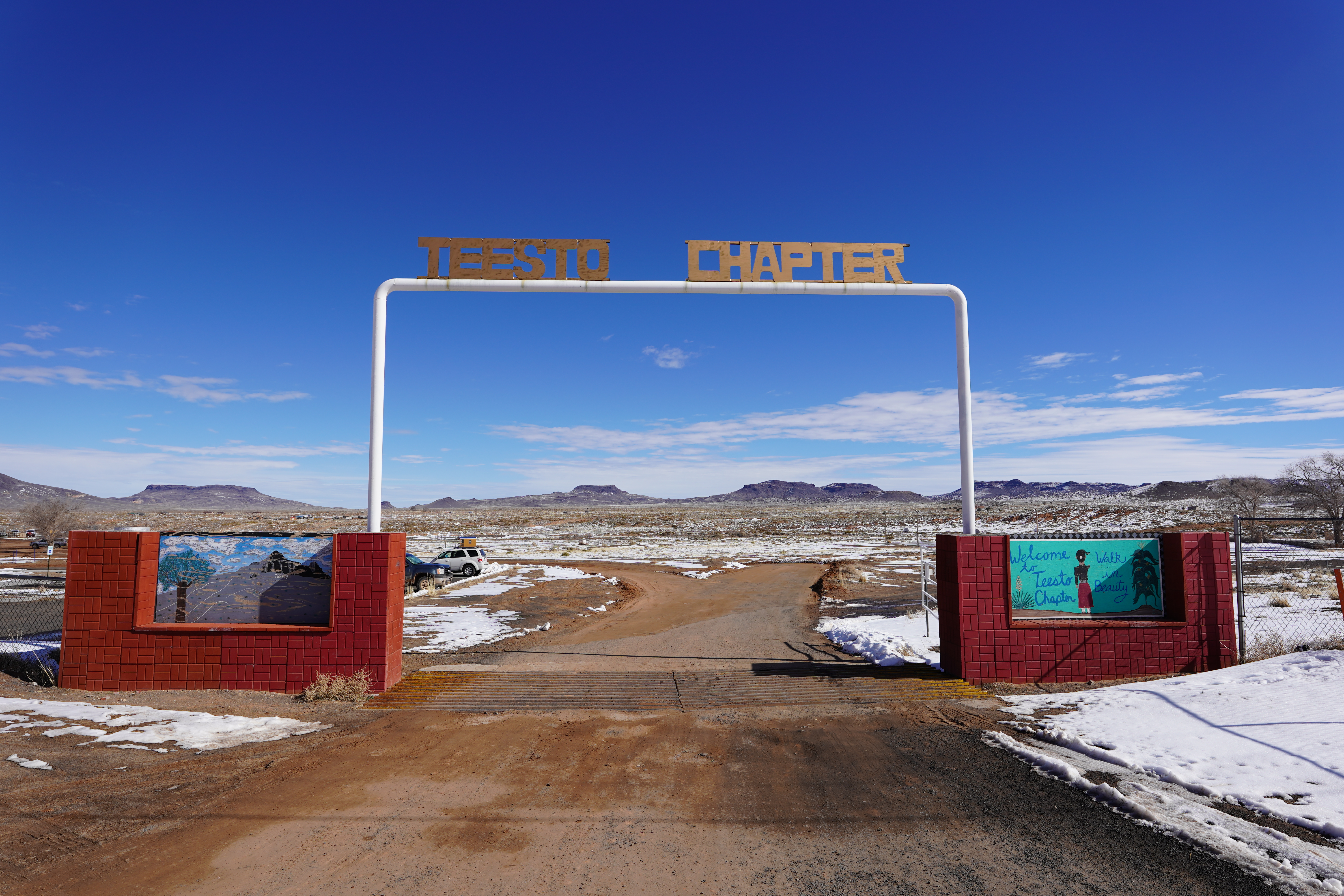 The photograph is of the entrance to the Teesto Chapter of the Navajo Nation. Photograph taken on 2019-02-27T17:20:59Z.